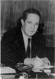 Carlos Ramírez Ulloa working at his office